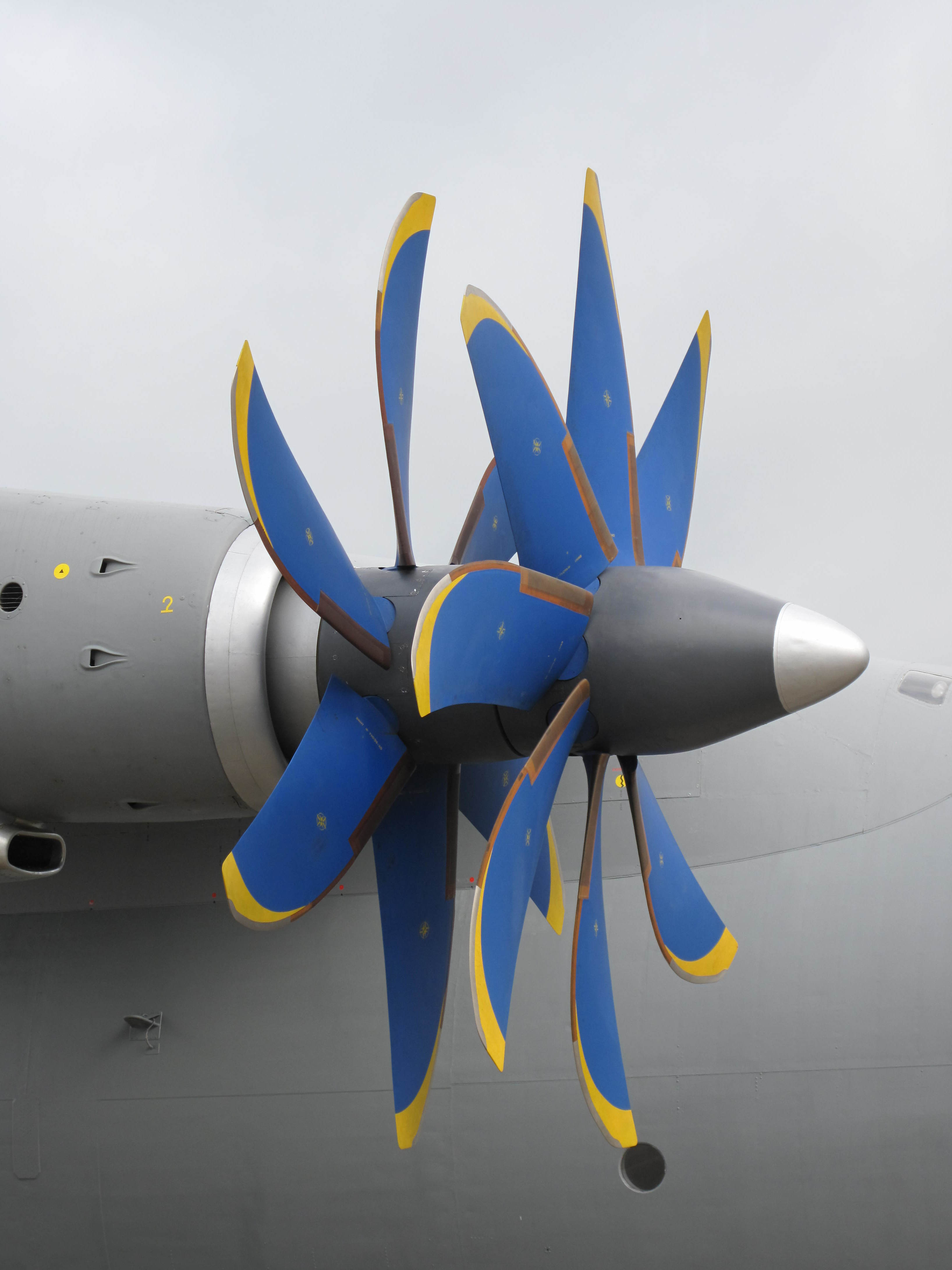 Engines of the Ukrainian Antonov AN-70 at Paris Air Show 2013